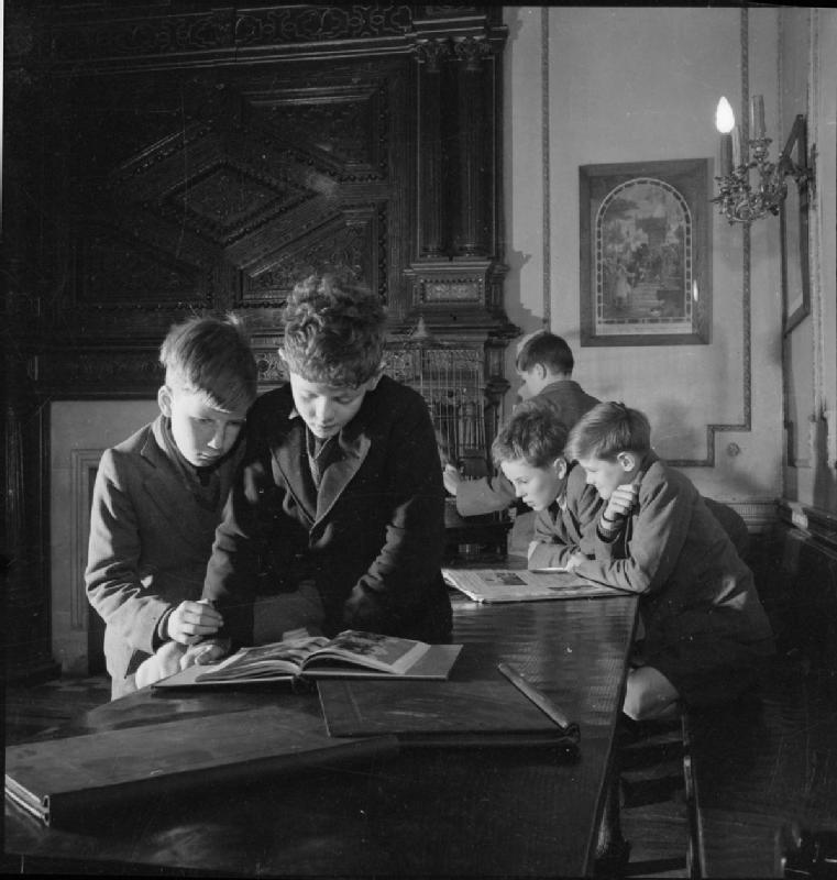 Catholic Public School- Everyday Life at Ampleforth College, York, England, UK, 1943 A preparatory school for younger boys is held at Gilling Castle, three miles from Ampleforth, to prepare boys for entrance to Ampleforth College at the age of twelve. Here we see young boys in their school uniform reading books in the wood-panelled reading room at Gilling Castle, the ancestral home of the Fairfaxes, a well-known Catholic family.